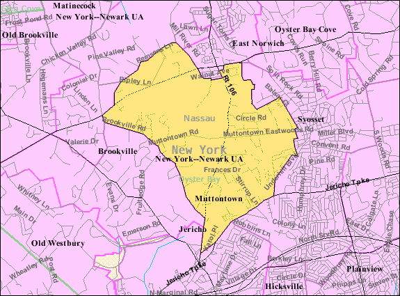 U.S. Census 2000 reference map for Muttontown, New York